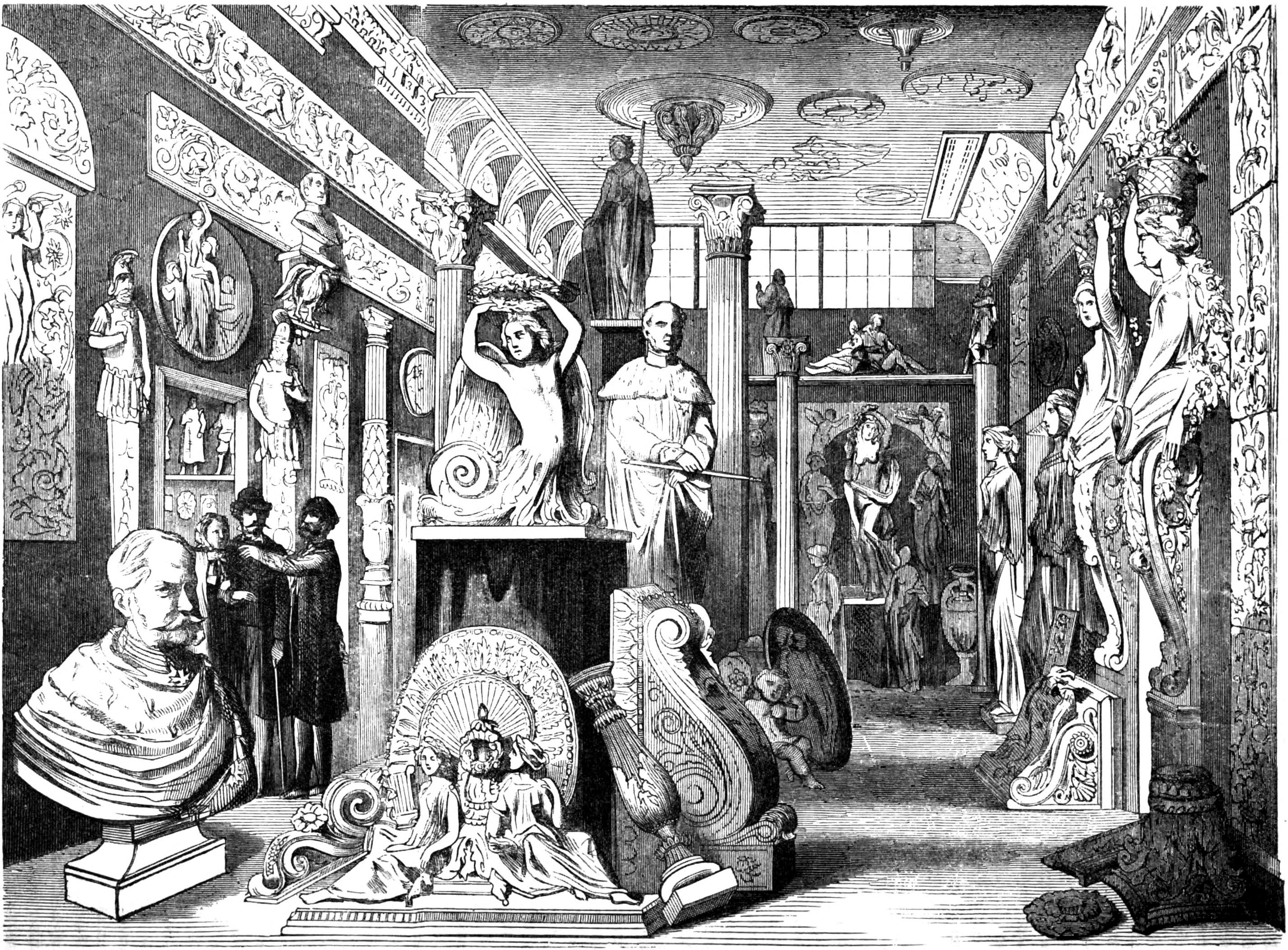 collection of sculptures from Friedrich Wilhelm Dankberg and his company in Berlin